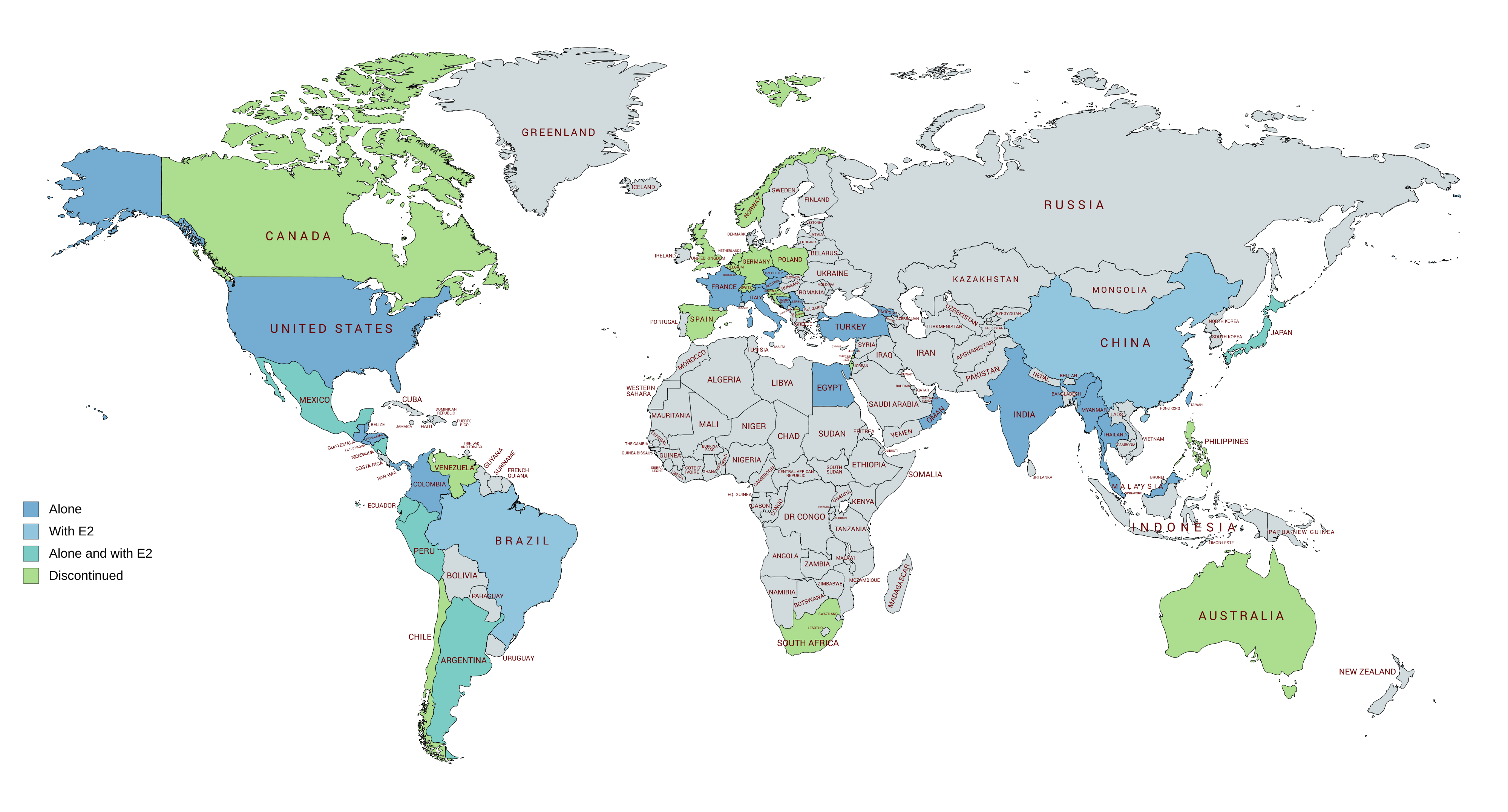 Current availability of hydroxyprogesterone caproate as of August 2018.